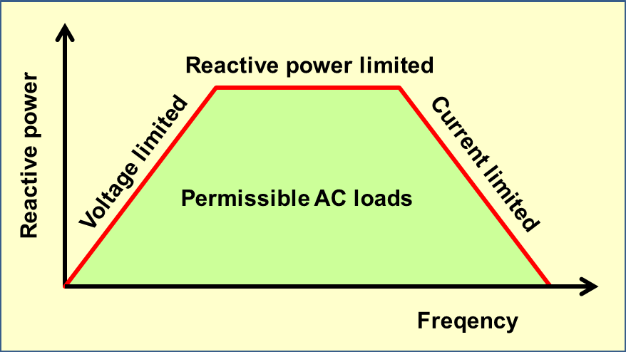 Limiting conditions for capacitors operating with AC loads